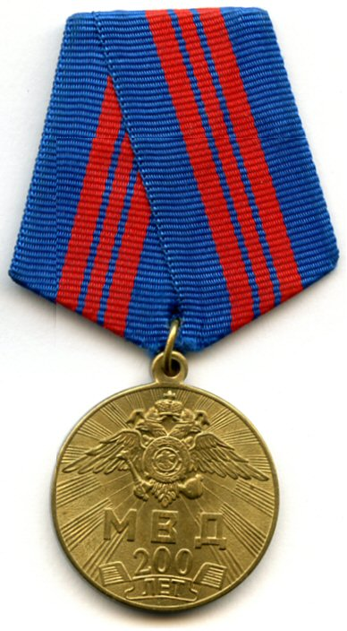 Russian medal. Medal For The 200th Anniversary Of The Ministry Of Internal Affairs